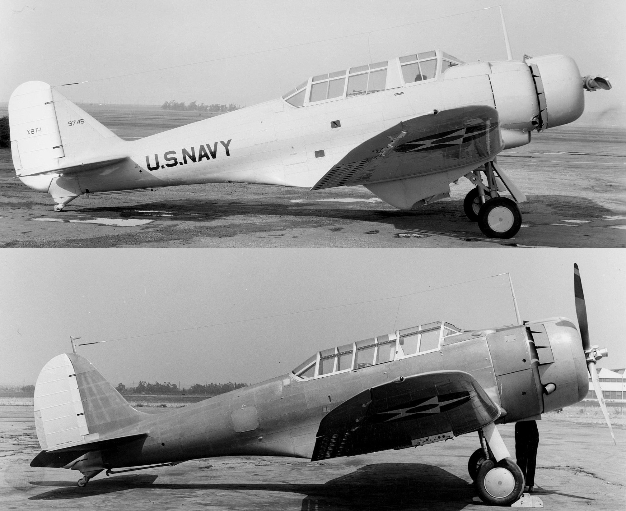 A comparison of the Northrop XBT-1 and XBT-2. The upper photo shows the XBT-1 (BuNo 9745) on 4 December 1936, the lower the XBT-2 (BuNo 0627) prototype on 23 July 1938. This was to be the prototype of the later Douglas SBD Dauntless, although canopy and tail would differ from the XBT-2.